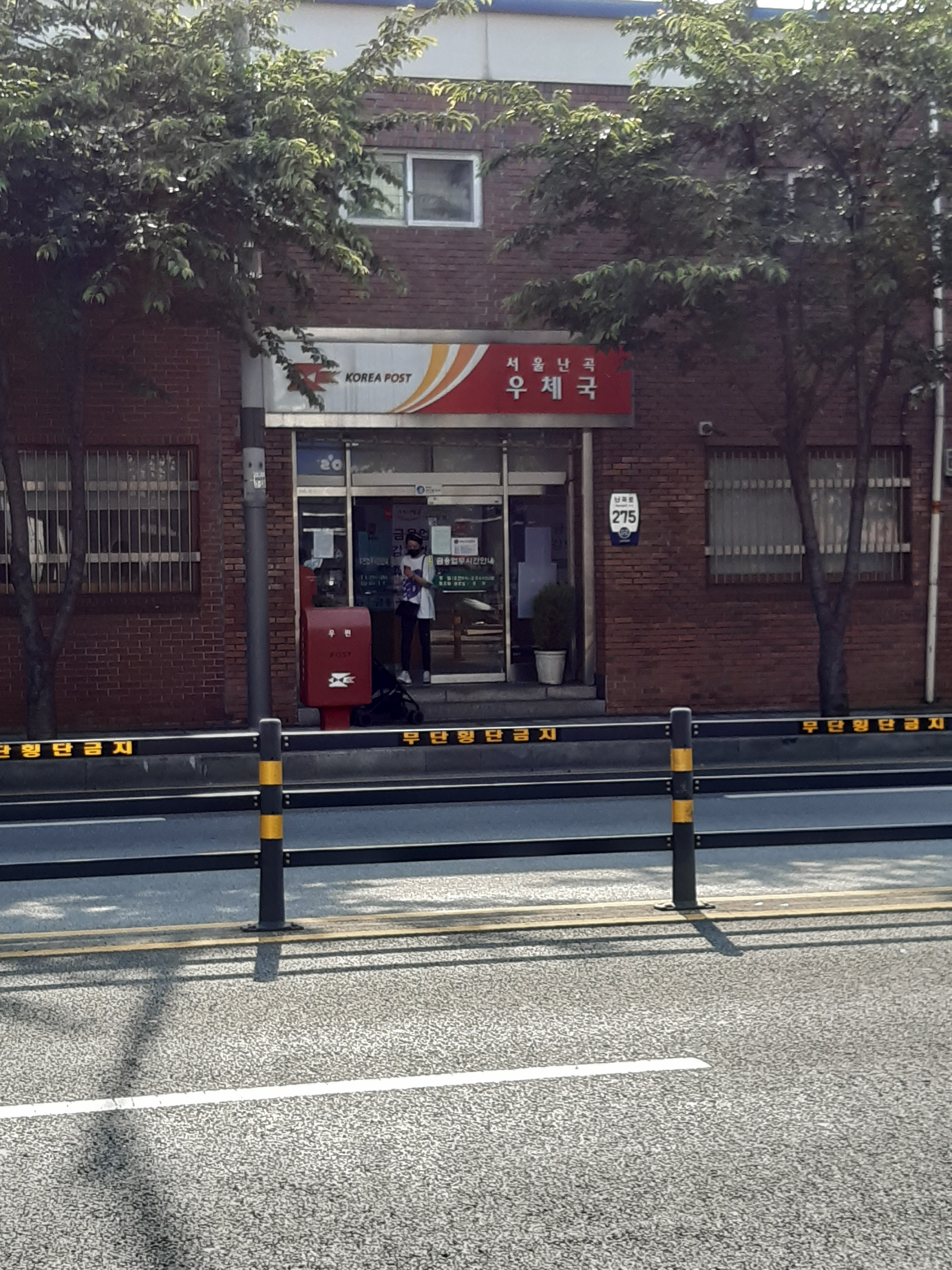 Nangok-dong, Gwanak-gu, Seoul (Seoul Nangok post office)